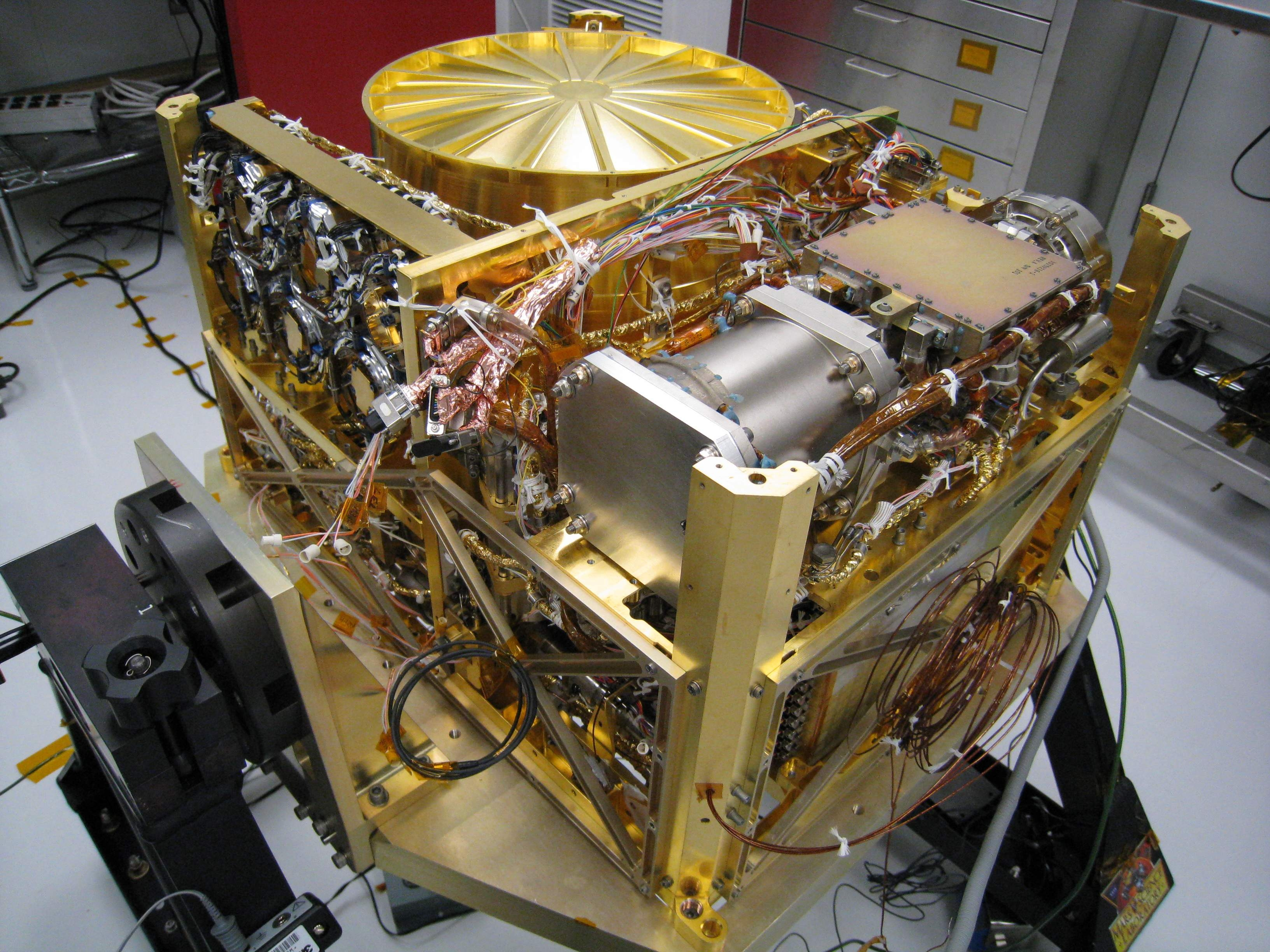 Integrated Sample Analysis at Mars instrument for Mars Science Laboratory rover "Curiosity".